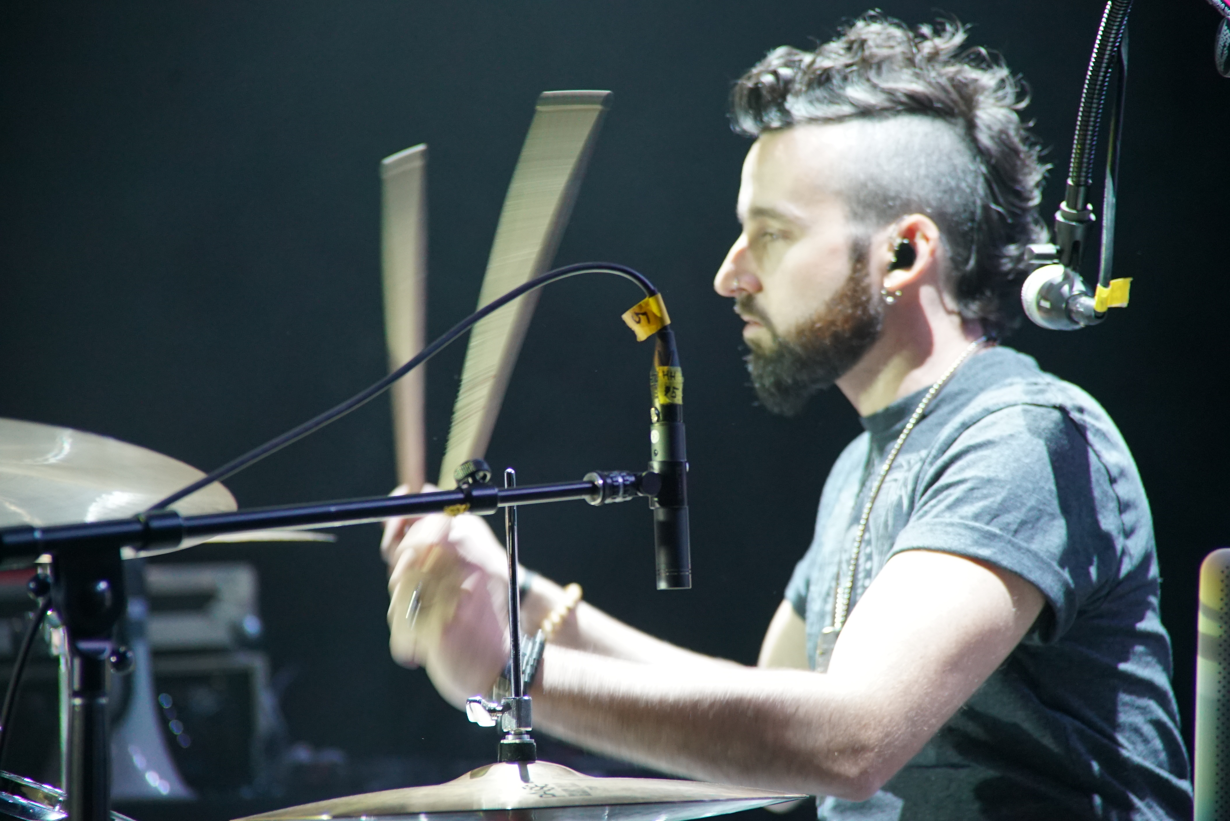 Alejandro "Alex" Zon - drummer for rock band Prime Ministers - Live in El Paso, TX 2016 - EL PASO COUNTY COLISEUM